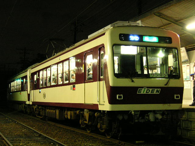 Eizan Electric Railway Deo 700 running as a two car train for Eizan no Himatsuri Fesitval